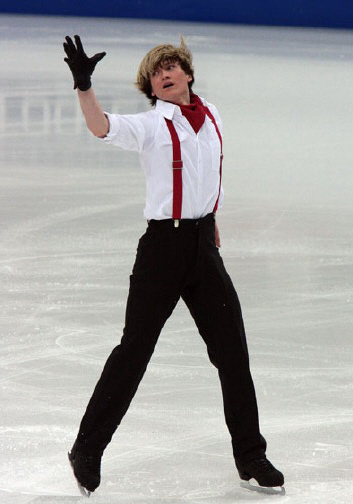 Kristoffer BERNTSSON (SWE) at the 2009 European Figure Skating Championships